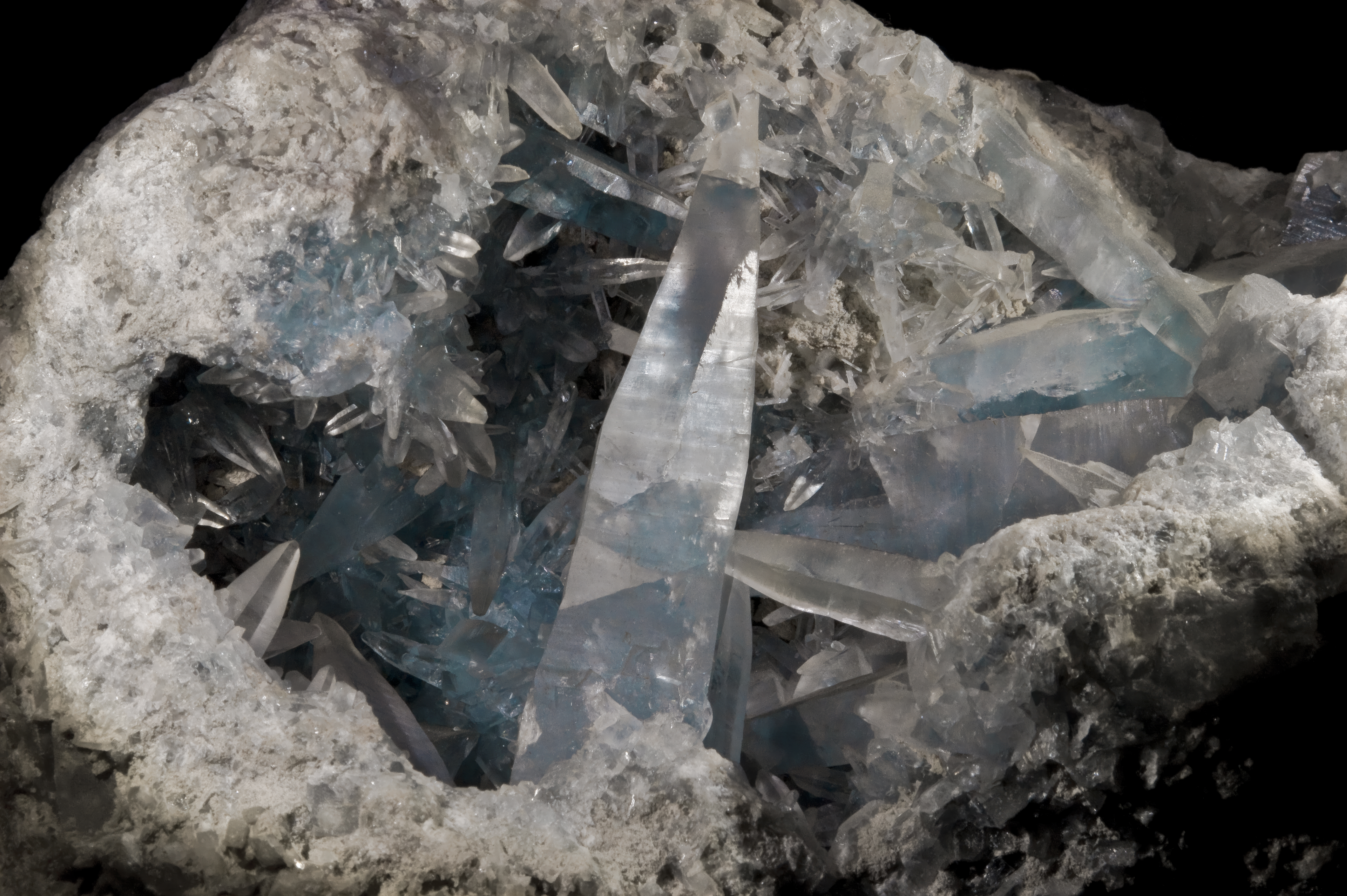 Celestine - Sakoany mine, Katsepy Commune, Mitsinjo Department, Boeny Region, Mahajanga (Majunga) Province, Madagascar (22x15cm XX10.1cm)